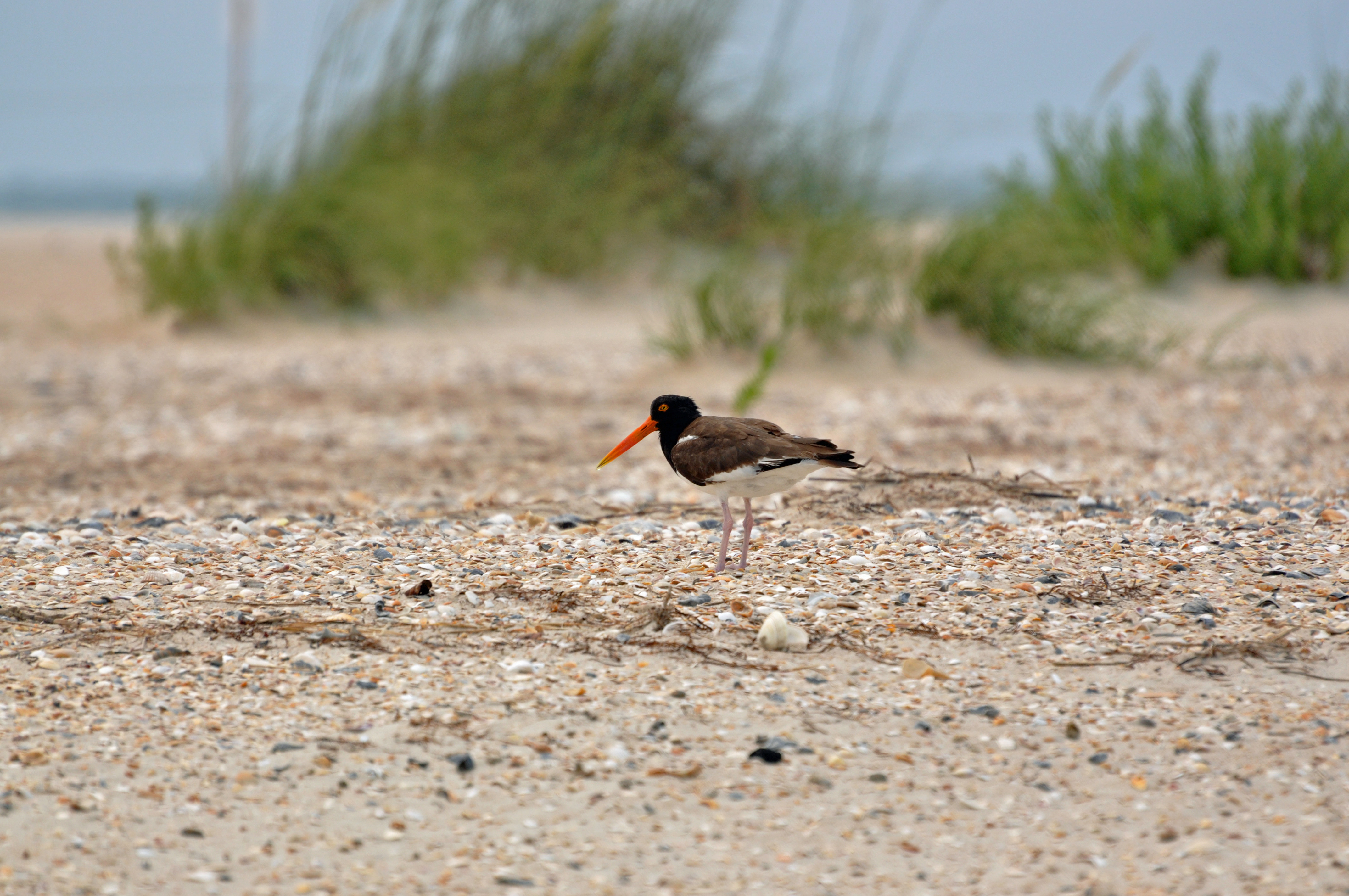 One of a pair of American Oystercatcher birds watching over their nest on Cape Lookout bight